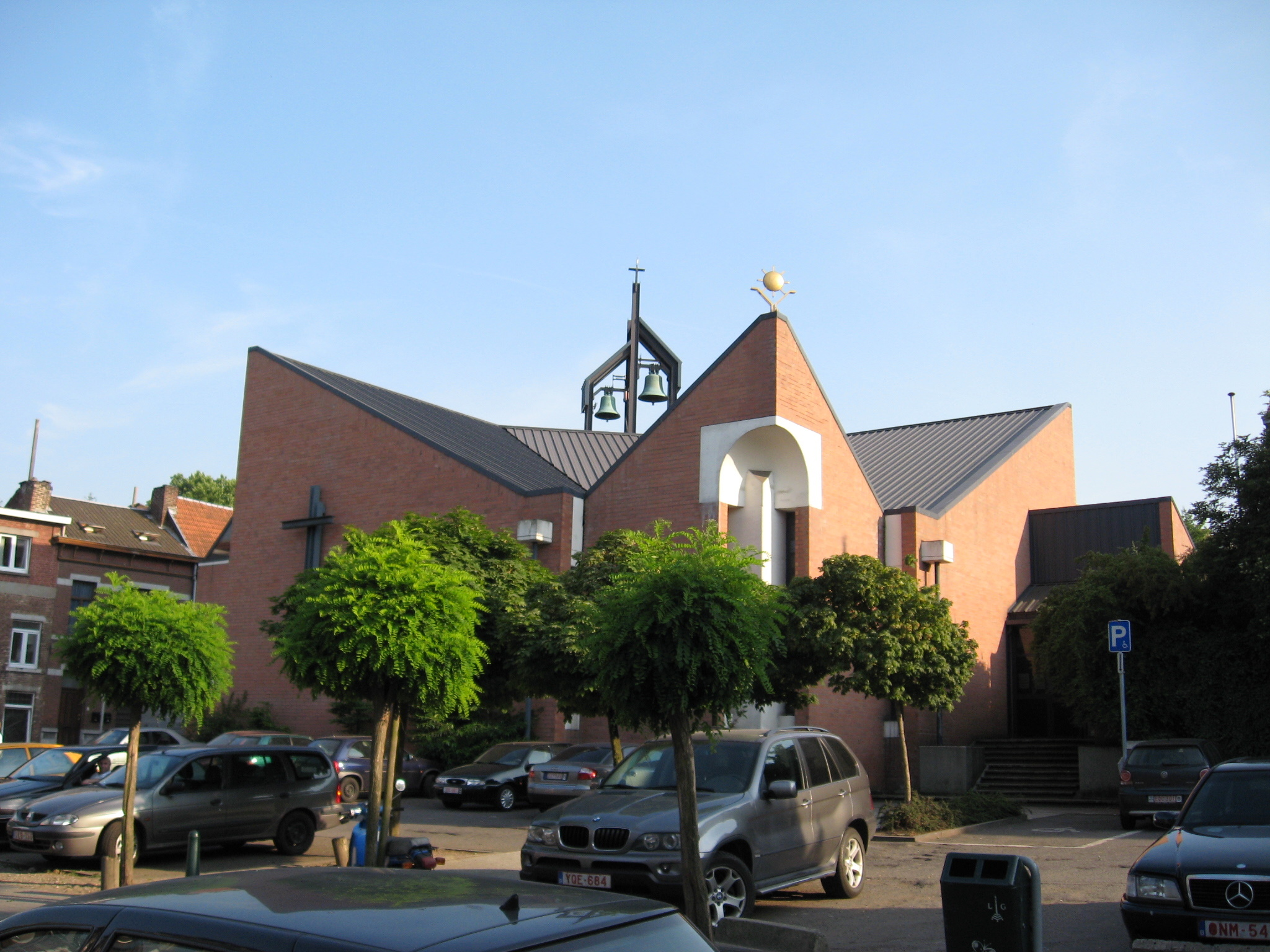 Church of Saint Margaret in Liège, Belgium